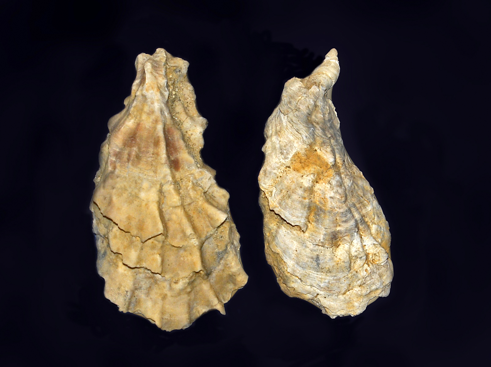 Fossil valves of Ostrea forskali from Pliocene of Italy, on display at the Museo Paleontologico, Asti